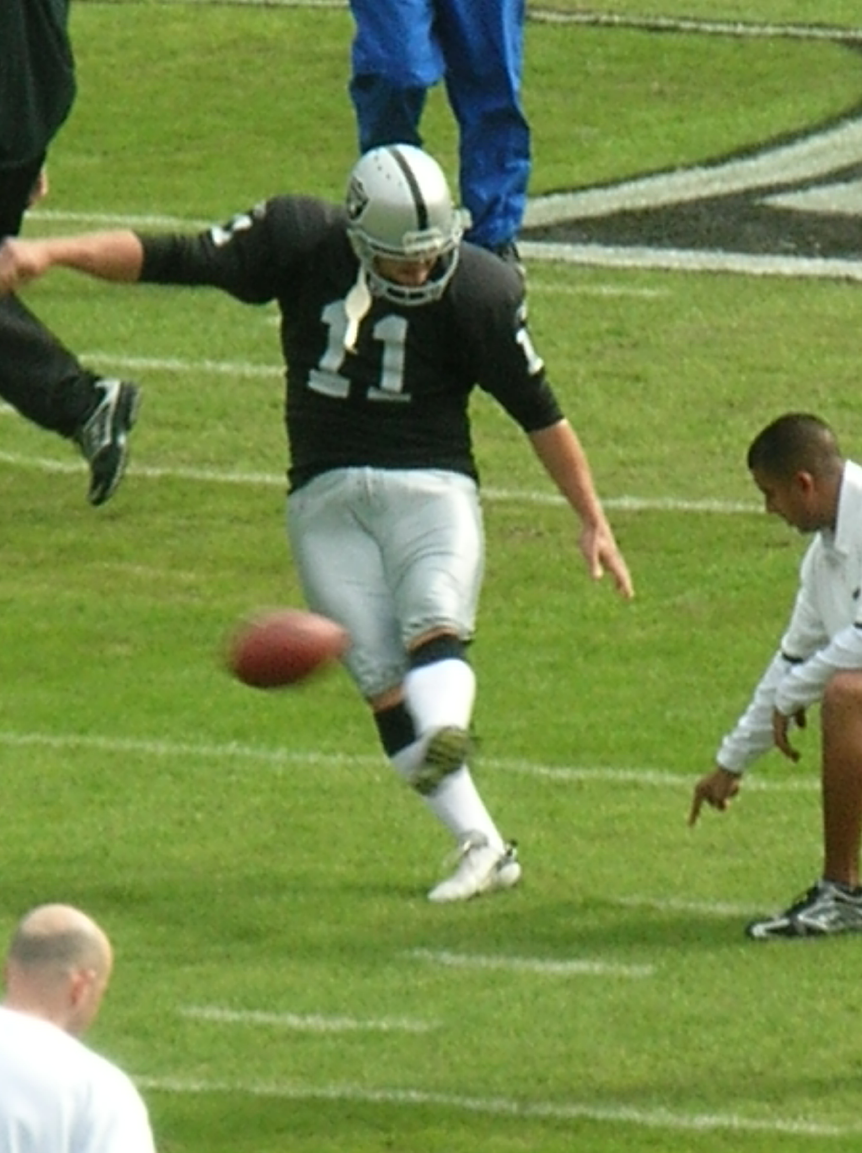 Oakland Raiders kicker Sebastian Janikowski warming up prior to a home game against the Atlanta Falcons. The Falcons won 24-0.